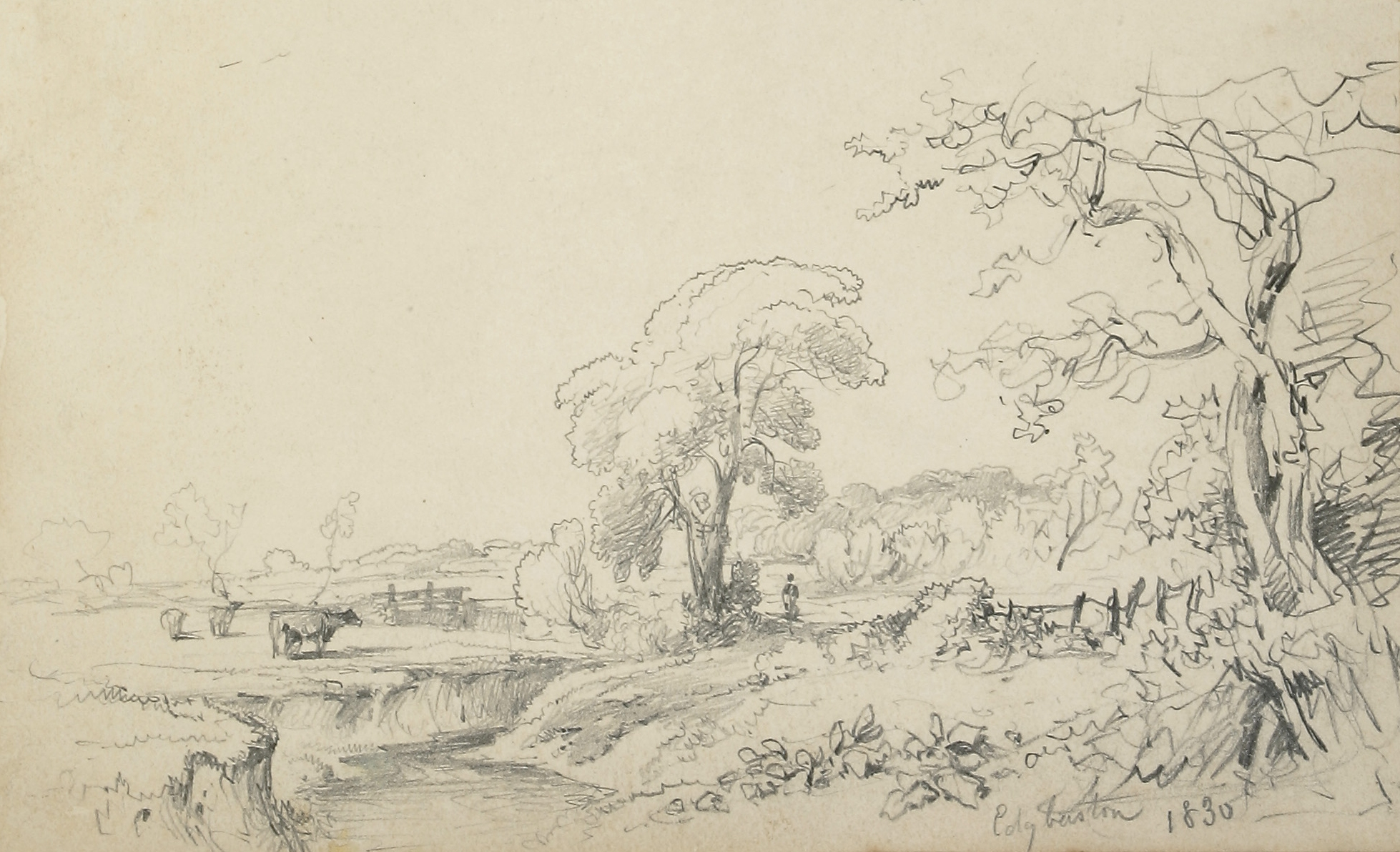 Edgbaston Pencil on paper; 210 x 262mm Inscr. underneath br.: Edgbaston 1830 Accession: BIRSA:2007X.534 From the Lines family sketchbook, in the collection of the Royal Birmingham Society of Artists, Birmingham, England. See Rediscovering the Lines Family - Exhibition catalogue - 2009.